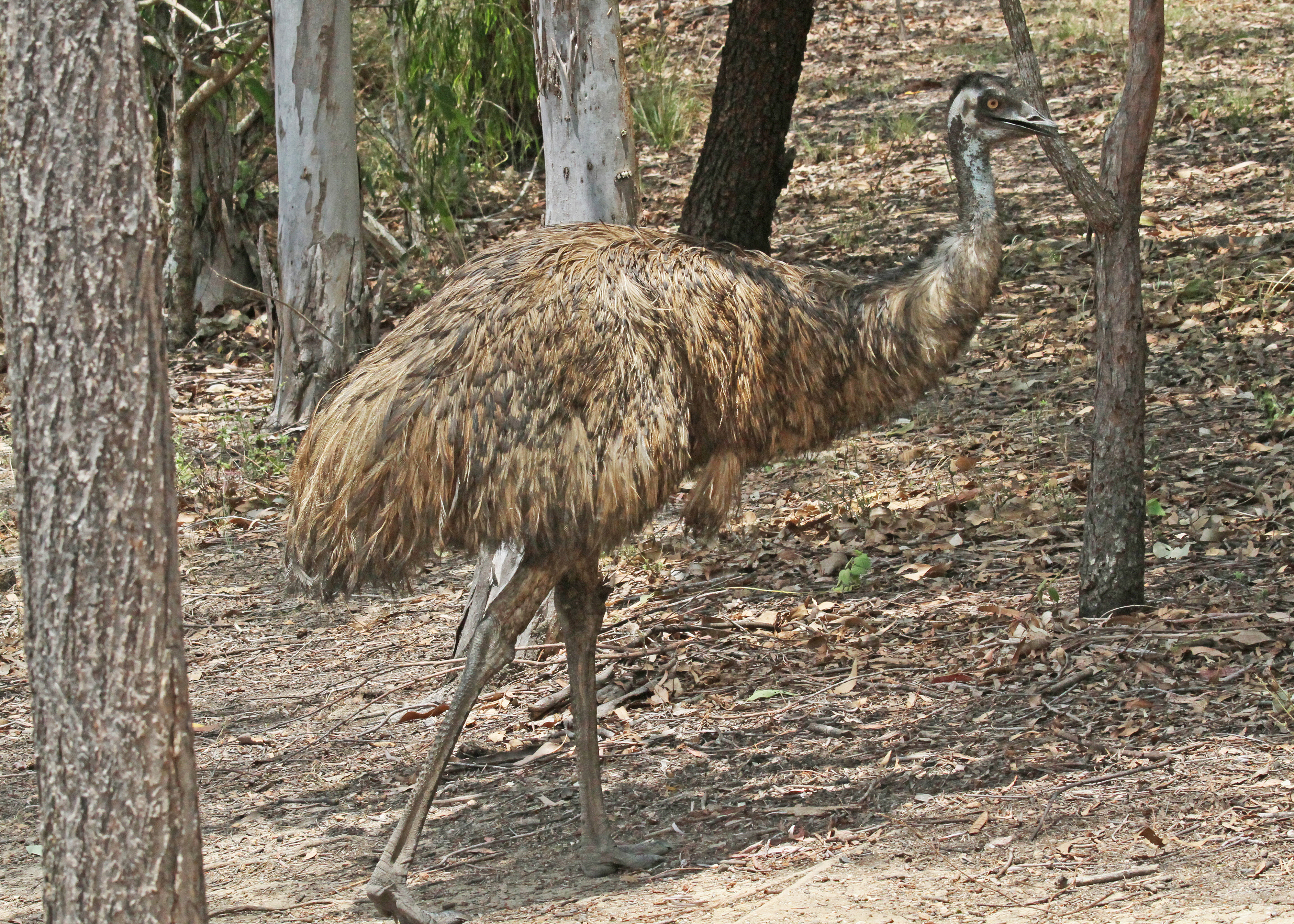 photo of Emu